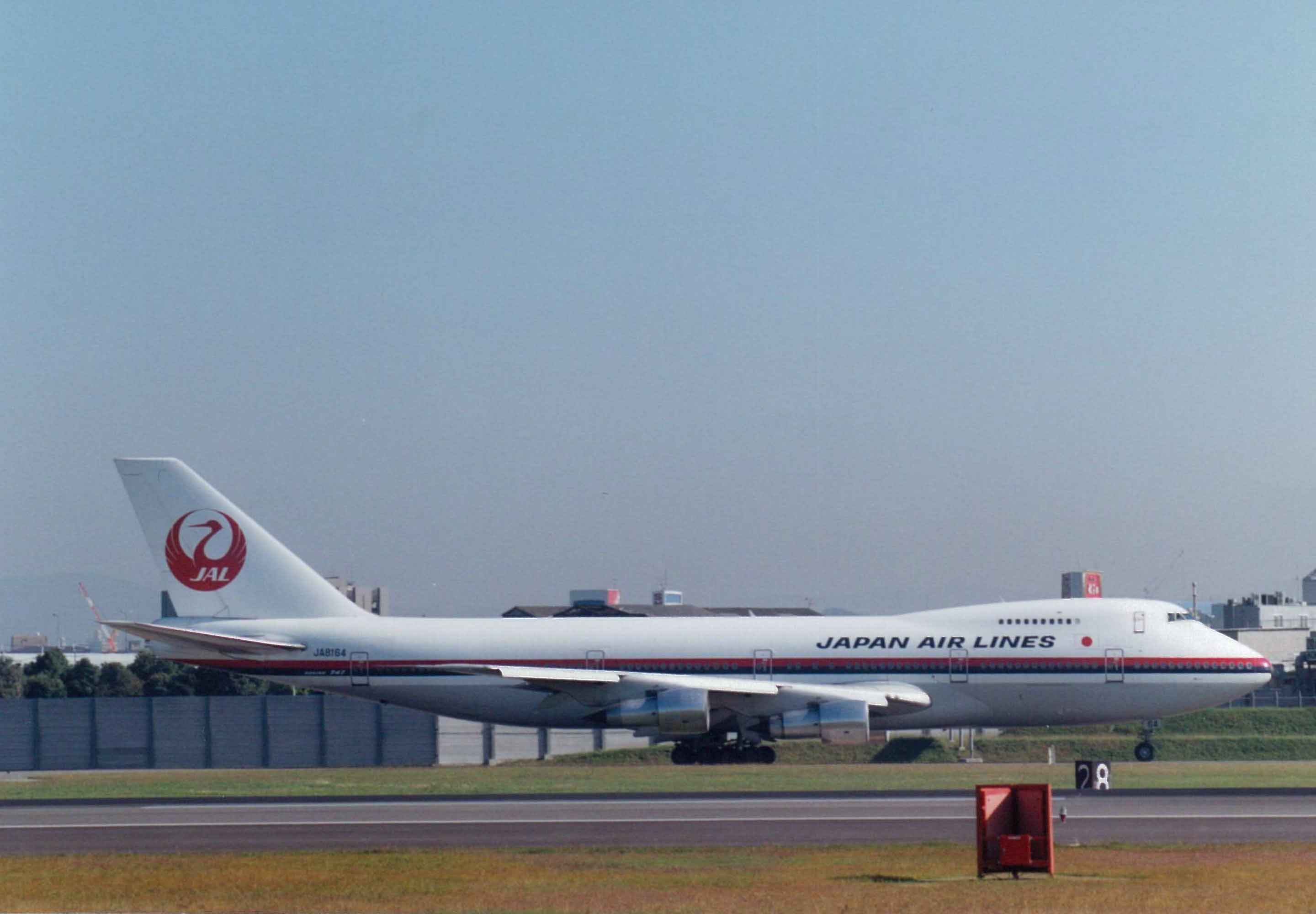 It is JAL which it photographed in Itami, Osaka Airport.